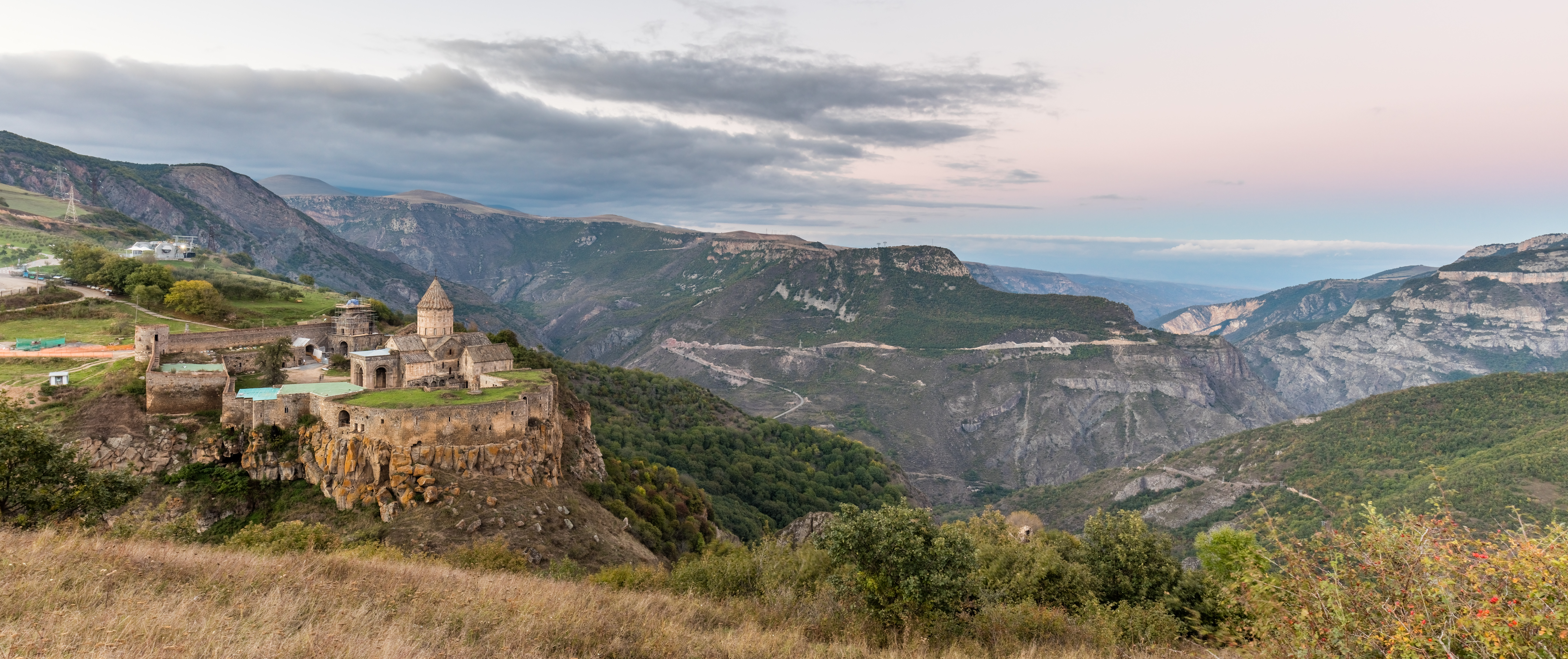 Tatev monastery during sunset, Syunik Province, southeastern Armenia. The Armenian Apostolic monastery, built in the 9th century, hosted in the 14th and 15th centuries one of the most important Armenian medieval universities, the University of Tatev, which contributed to the advancement of science, religion and philosophy, reproduction of books and development of miniature painting.